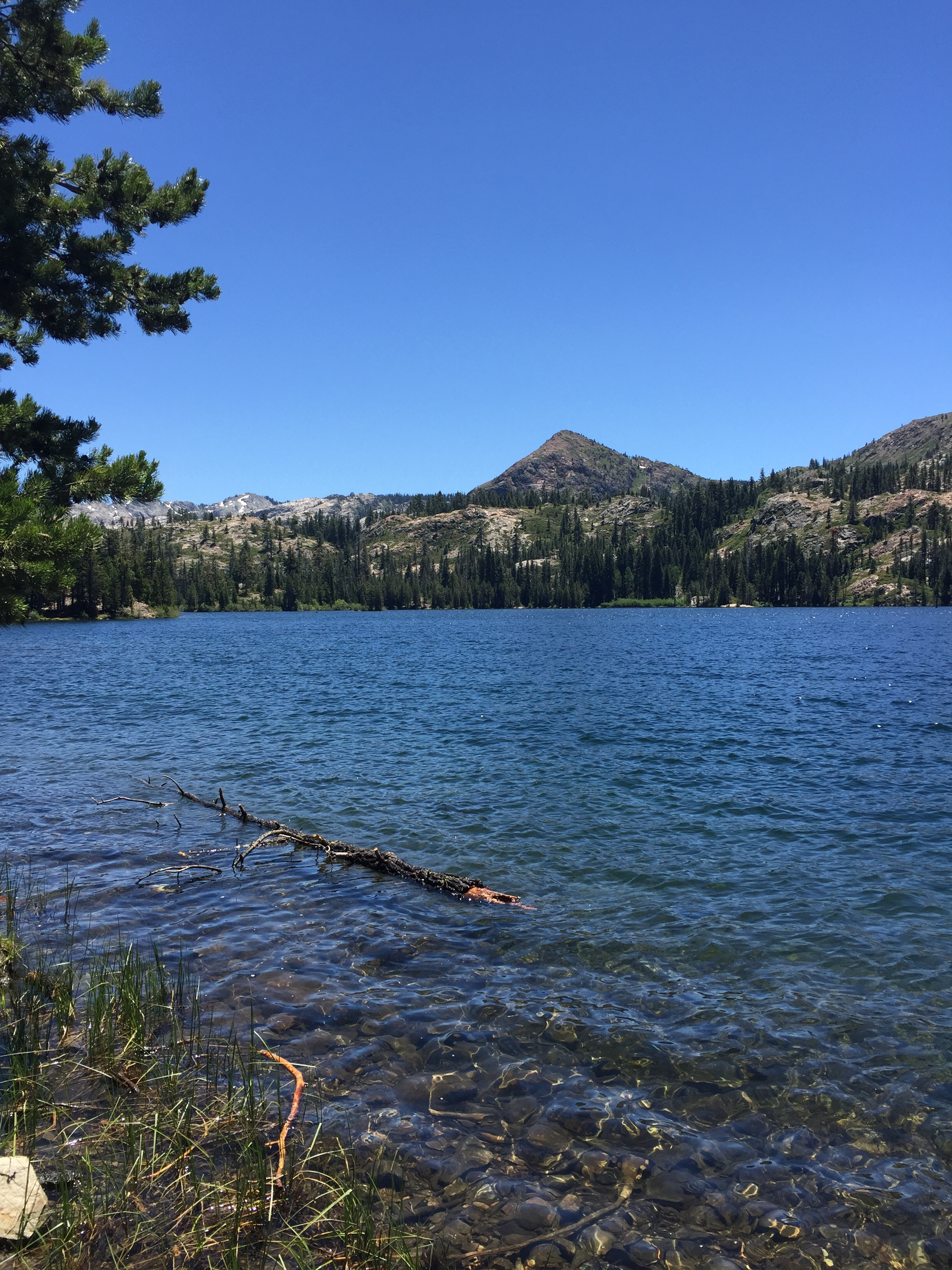 Sawmill Lake, part of the Yuba Bear Hydroelectric Project.